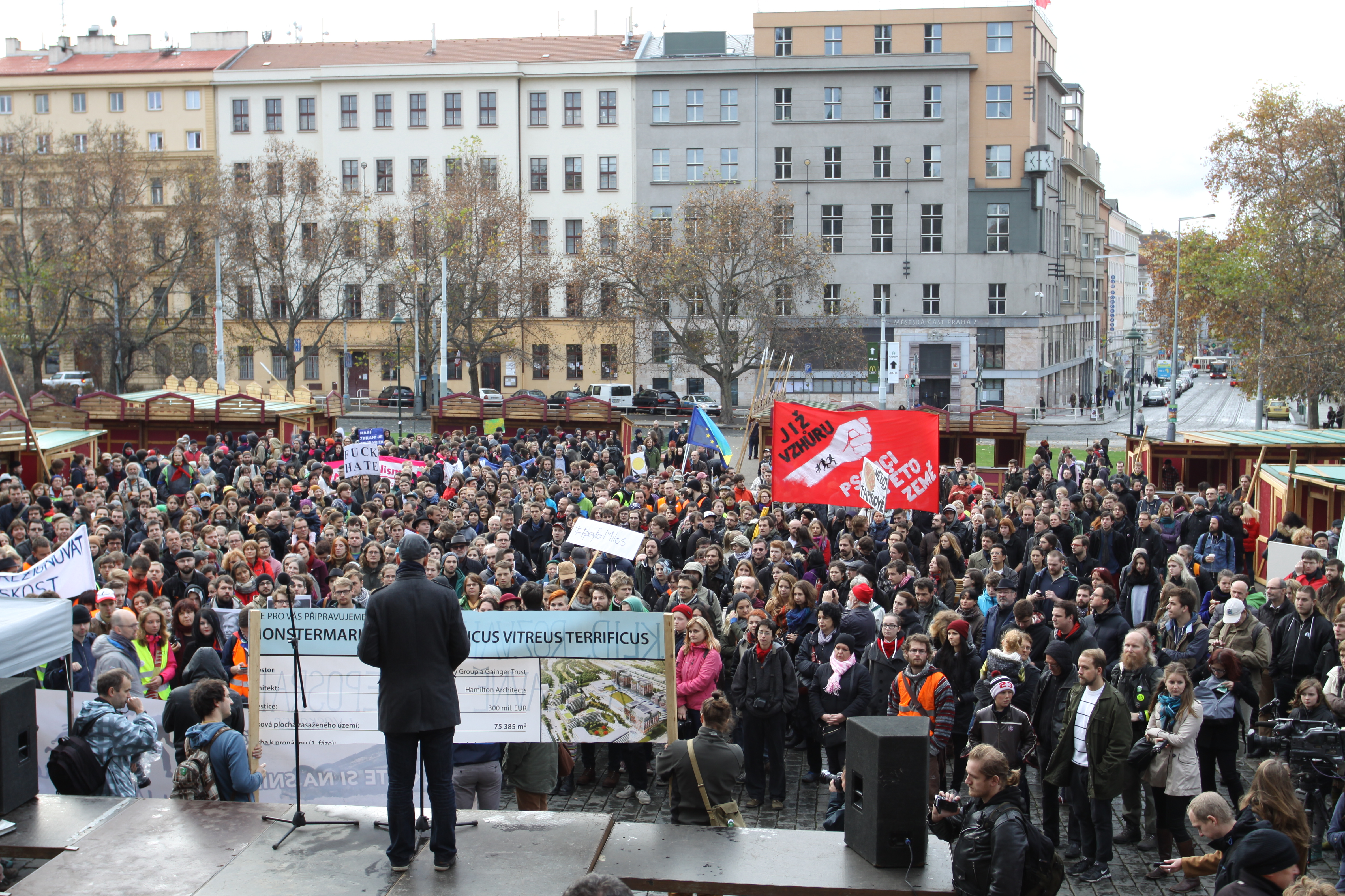 Demonstration called "Tahle Země patří všem "REFUGEES WELCOME"" on the occasion of the state holiday of 17th of Ocotber, Prague, Czech Republic.